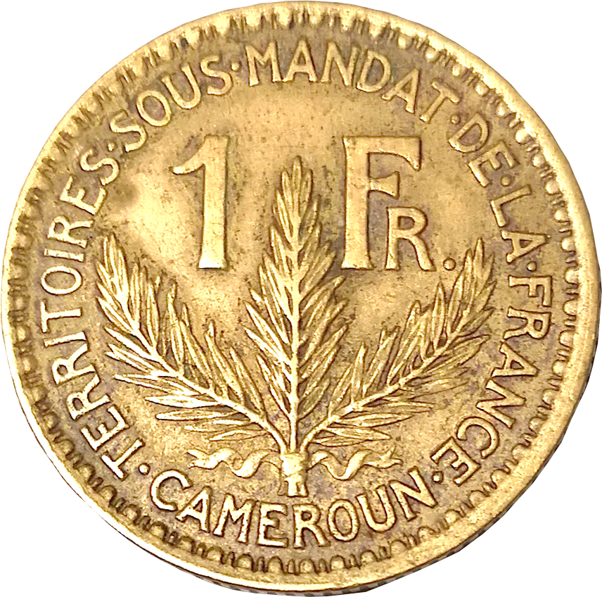 Coin of 1 franc stucked in Paris for the French Cameroun Territory. Composition: aluminium-bronze.